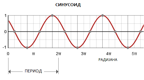 СИНУСОИД